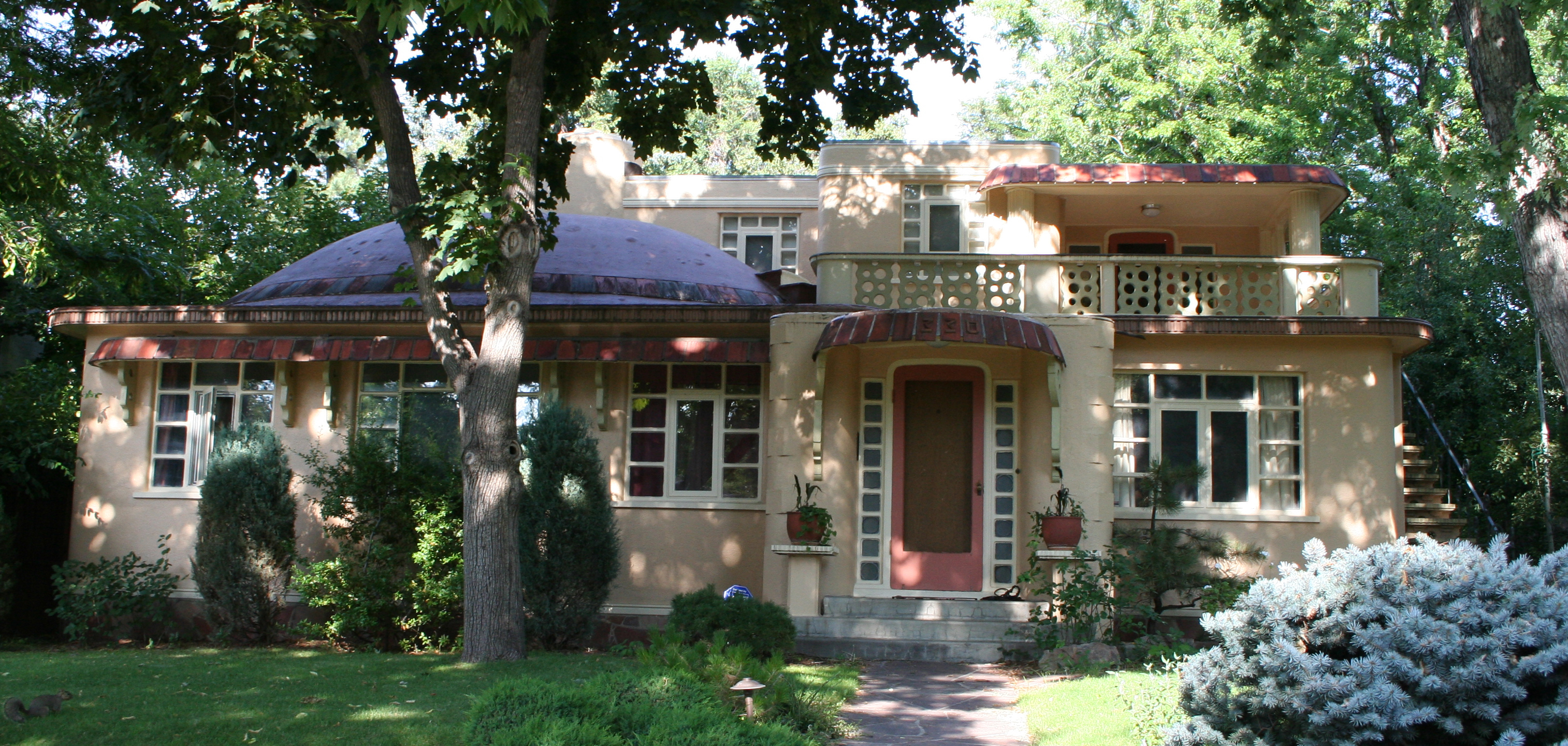 Nordlund House, listed on the National Register of Historic Places and located at 330 Birch Street in Denver, Colorado